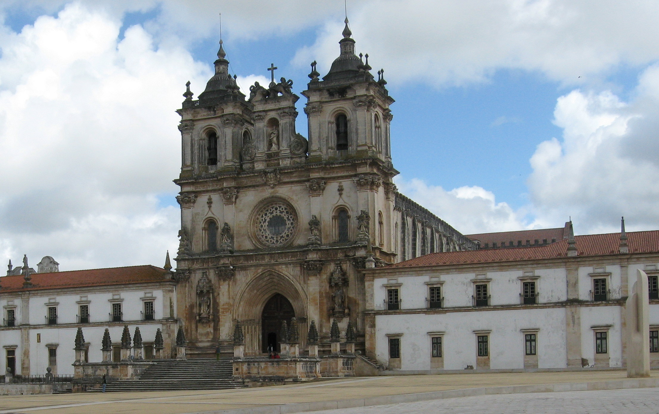 Mosteiro de Alcobaça, part of west front with monument for the monks (left)